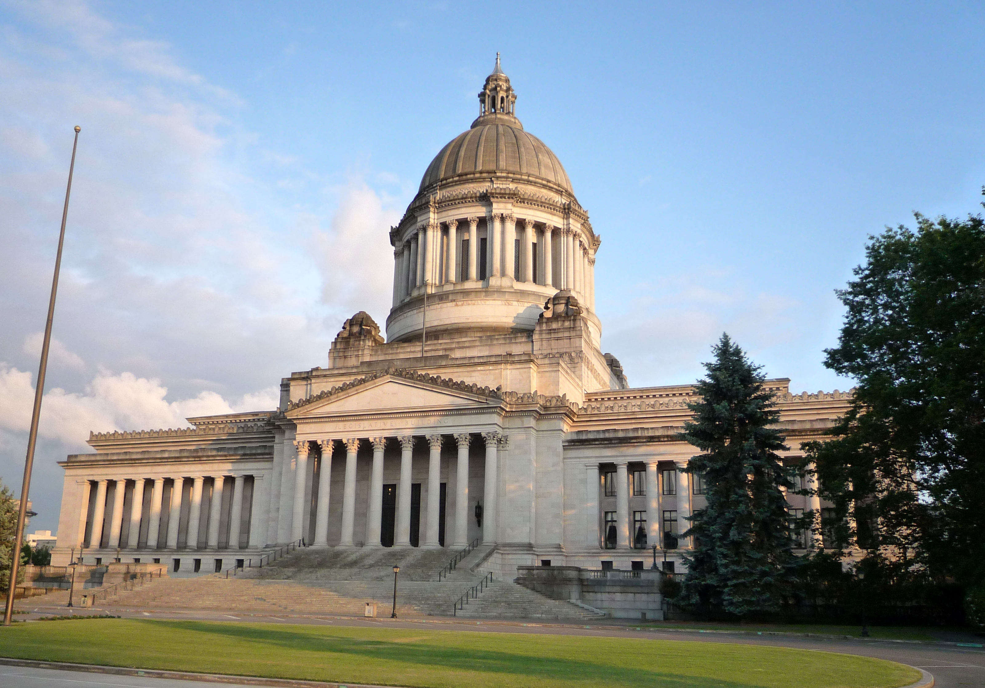 One of the stores aimed at fans of the Washington State Capitol series, Olympia, Washington, USA.